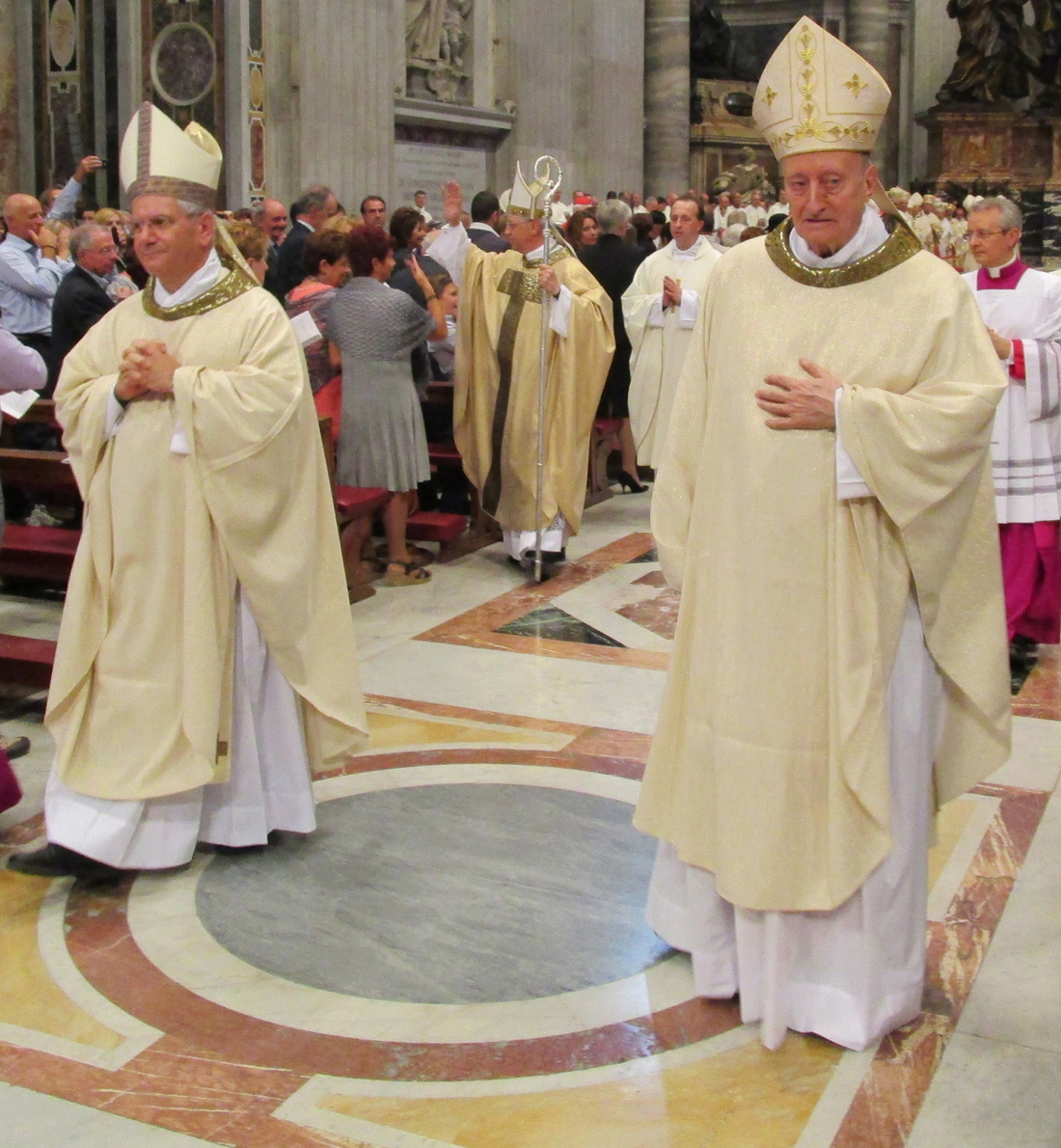 Bishop Malvestiti just ordinated, with bishops Beschi (Bergamo) and Merisi (emeritus of Lodi)